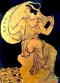 Aura a wind nymph/goddess/Titan; painting, detail from an Athenian red-figure vase C5th B.C.